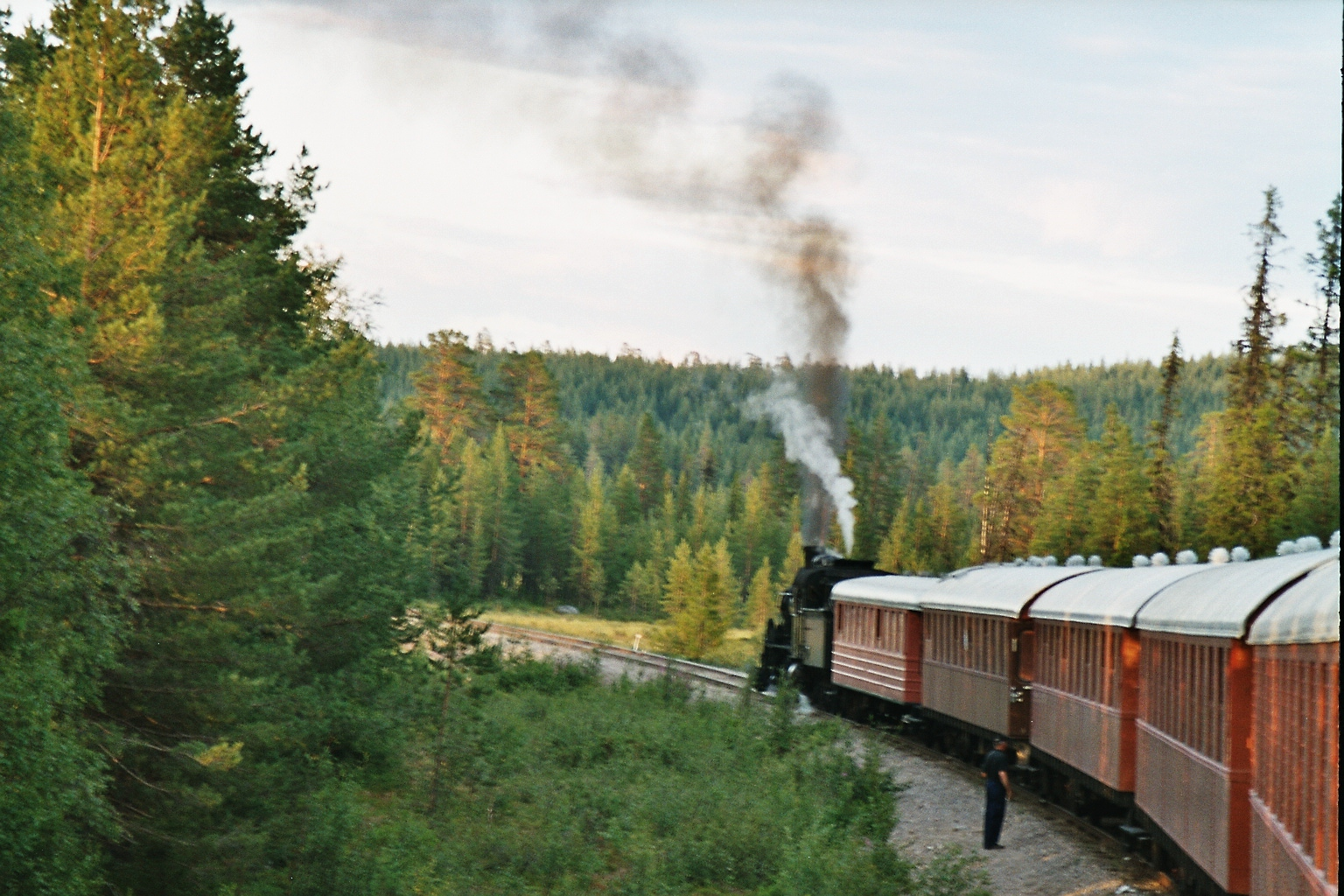 Steam train of Inlandsbanan stopps.